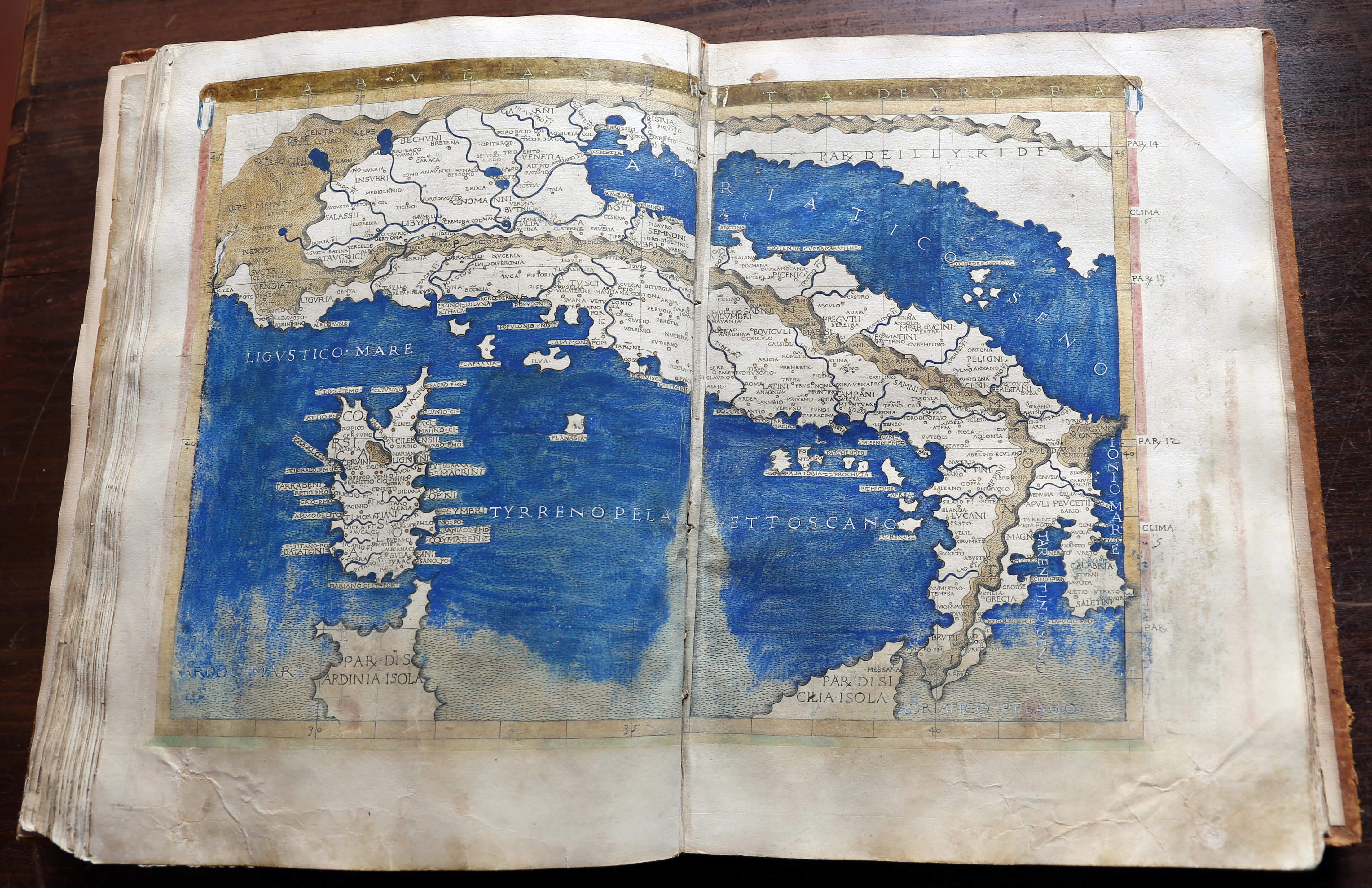 Geographia by Francesco Berlinghieri (Crusca)